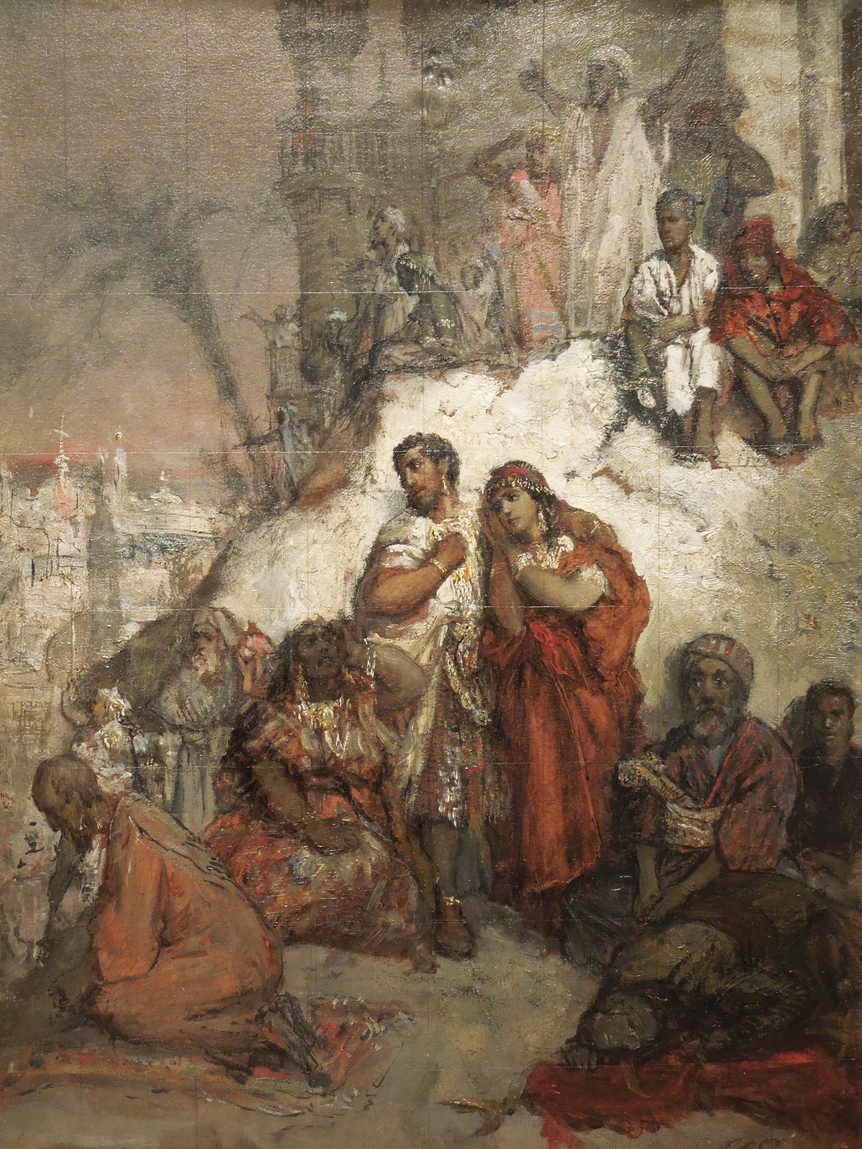 Maurycy Gottlieb - Mauritanians Exile from Granada, 1877, oil on canvas